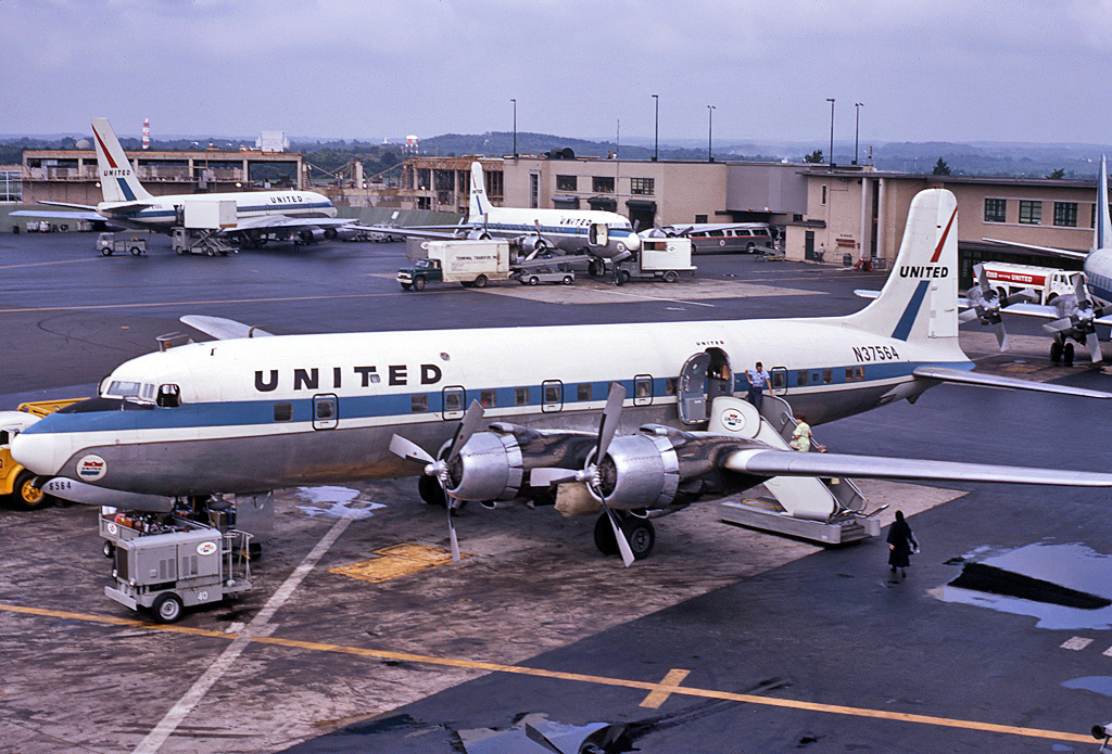 United Airlines Douglas DC-6B at BWI